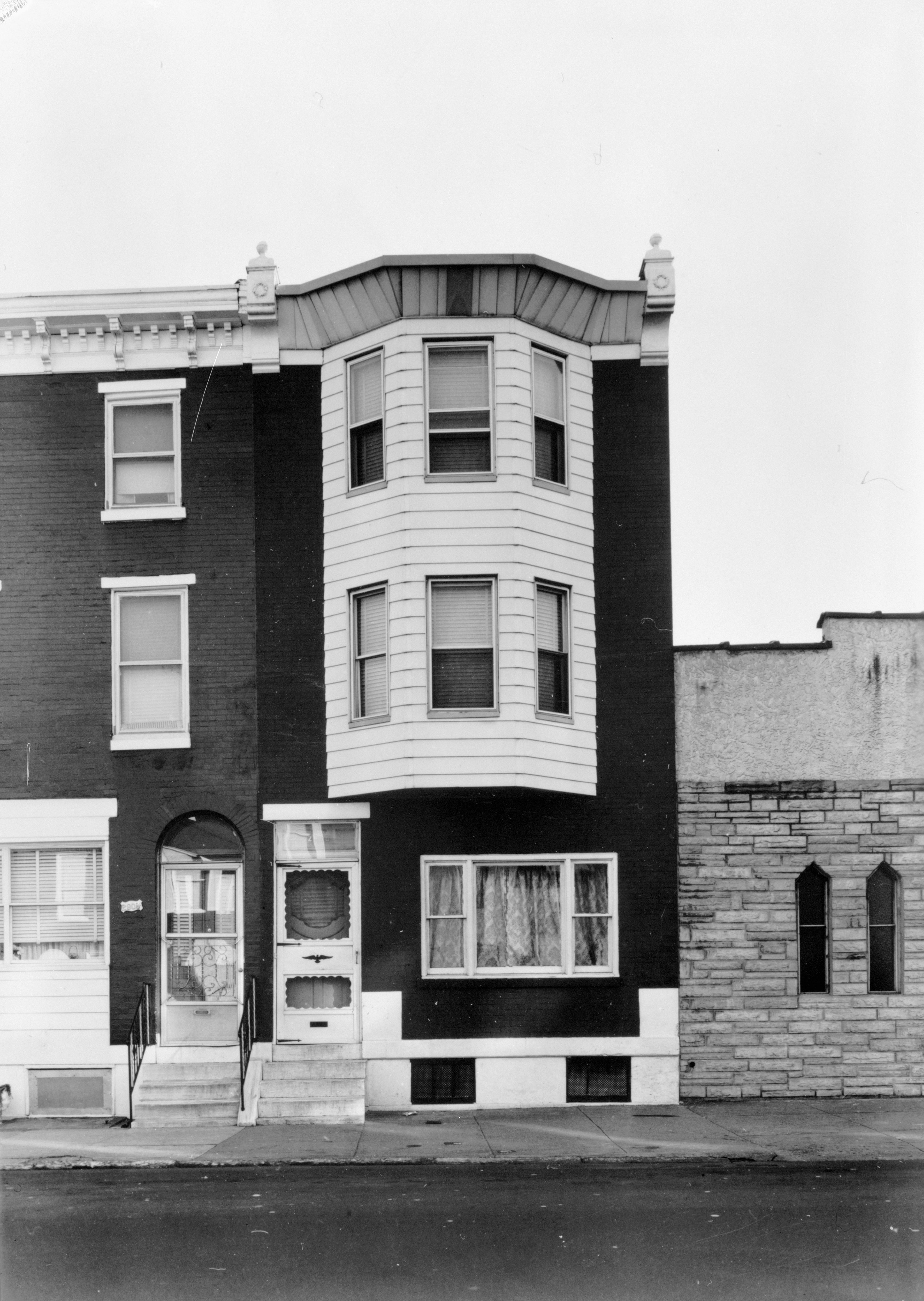 Henry O. Tanner House, 2908 West Diamond Street, Philadelphia (Philadelphia County, Pennsylvania) (cropped)